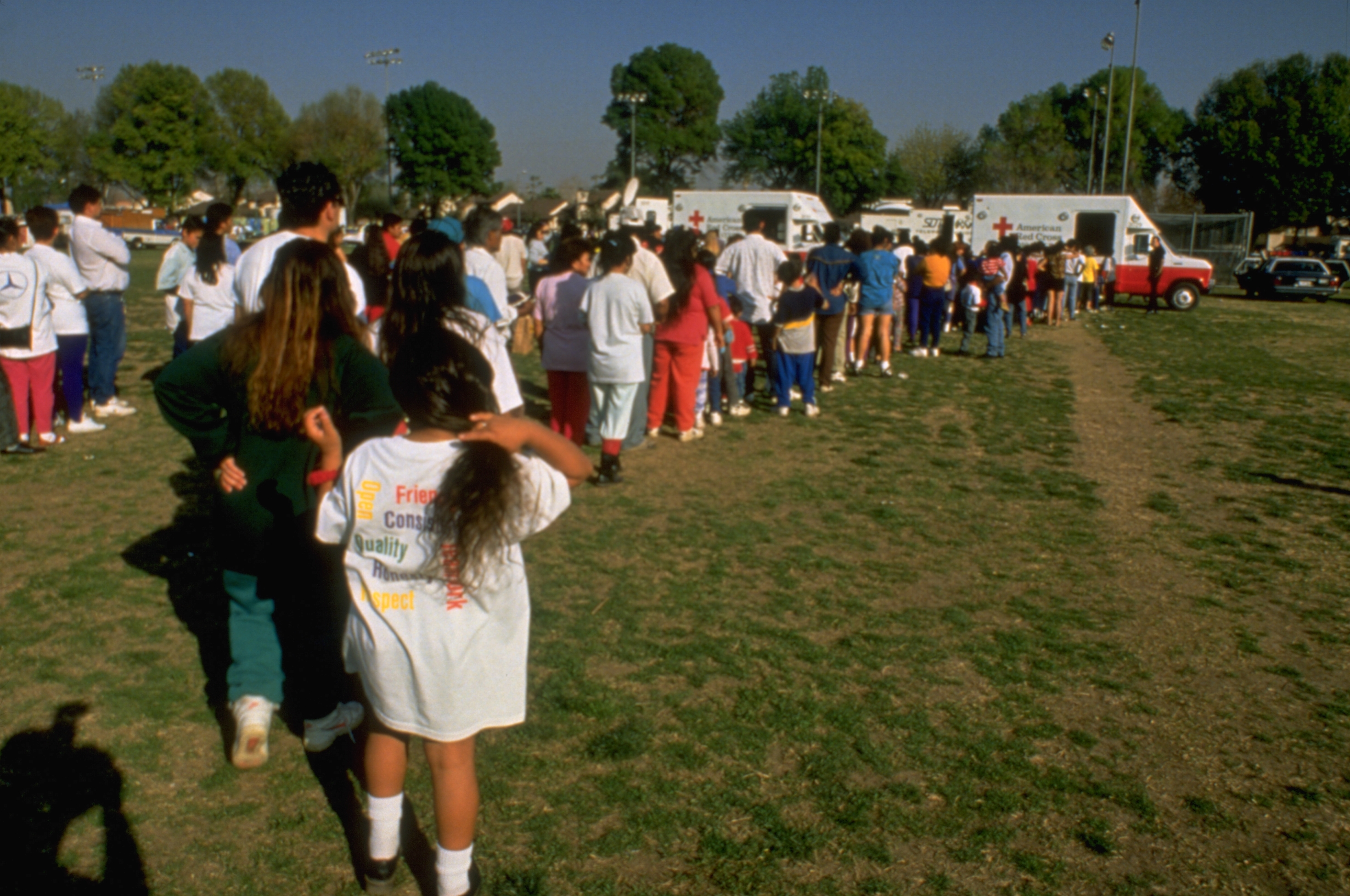 Northridge, CA, January 17, 1994 -- Volunteer assistance was received from volunteer organizations including the American Red Cross and Salvation Army. Approximately 114,000 residential and commercial structures were damaged and 72 deaths were attributed to the earthquake. Damage costs were estimated at $25 billion. FEMA News Photo